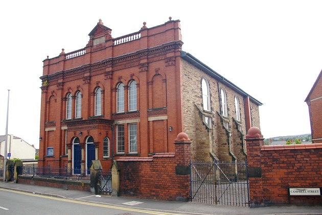 Penuel, Eglwys y Bedyddwyr, Rhosllanerchrugog Penuel is a place in Jordan, in the Middle East, and it means "face of God". The church is dated 1859. Bedyddwyr is Welsh for 'Baptist'.